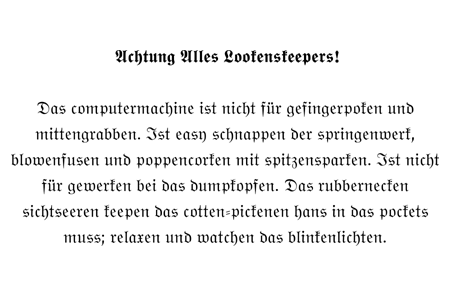 Sign that appeared at Stanford University in 1959 Origin of the Word Blinkenlights. See Blinkenlights in The New Hacker's Dictionary, MIT Press by Eric S. Raymond